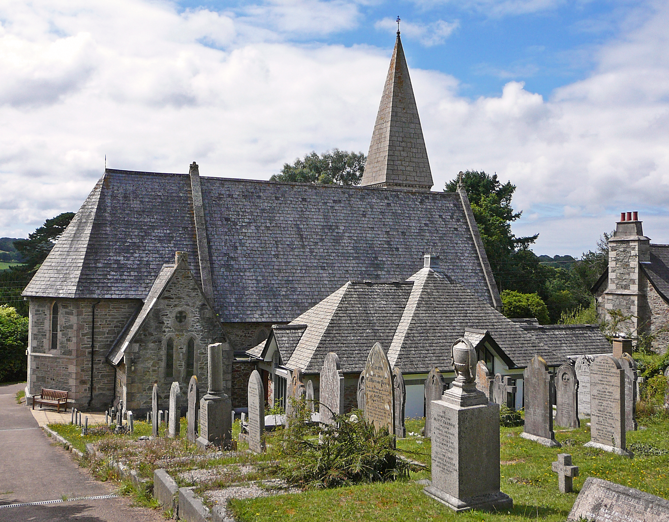 1855 by J. L. Pearson. Coursed slatestone with granite quoins, jambstones, plinth copings, string and ashlar upper stage of tower including steep pyramidal spire. Very steeply pitched dry Delabole slate roofs over nave, chancel and porch. Granite copings to nave and porch and polygonal roof over chancel.